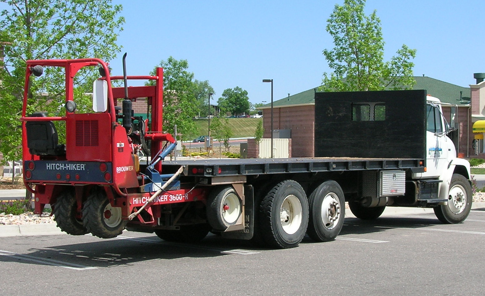 flatbed truck with Hitchhiker lift, Loveland, Colorado / 2006